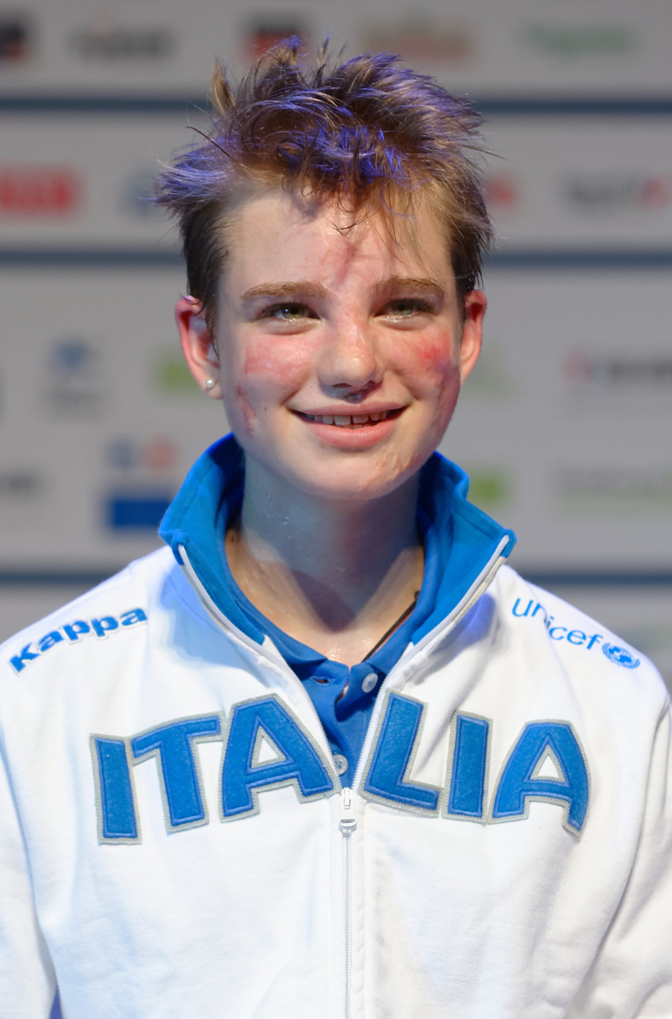 Beatrice Vio of Italy on the podium for women's team foil in the European Wheelchair Fencing Championships at Rhénus Sport in Strasbourg on 12 June 2014.